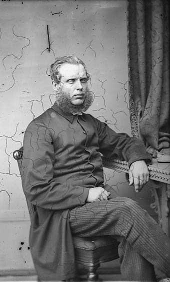 1 negative : glass, wet collodion, b&w ; 11 x 16.5 cm.